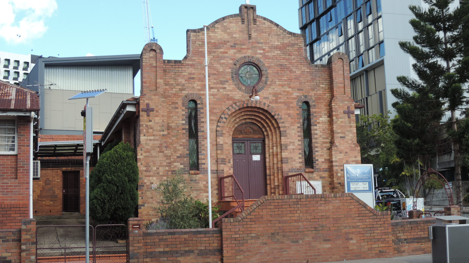 St Clement's Melkite Catholic Church of Lebanon, 74 Ernest Street, South Brisbane, 2020